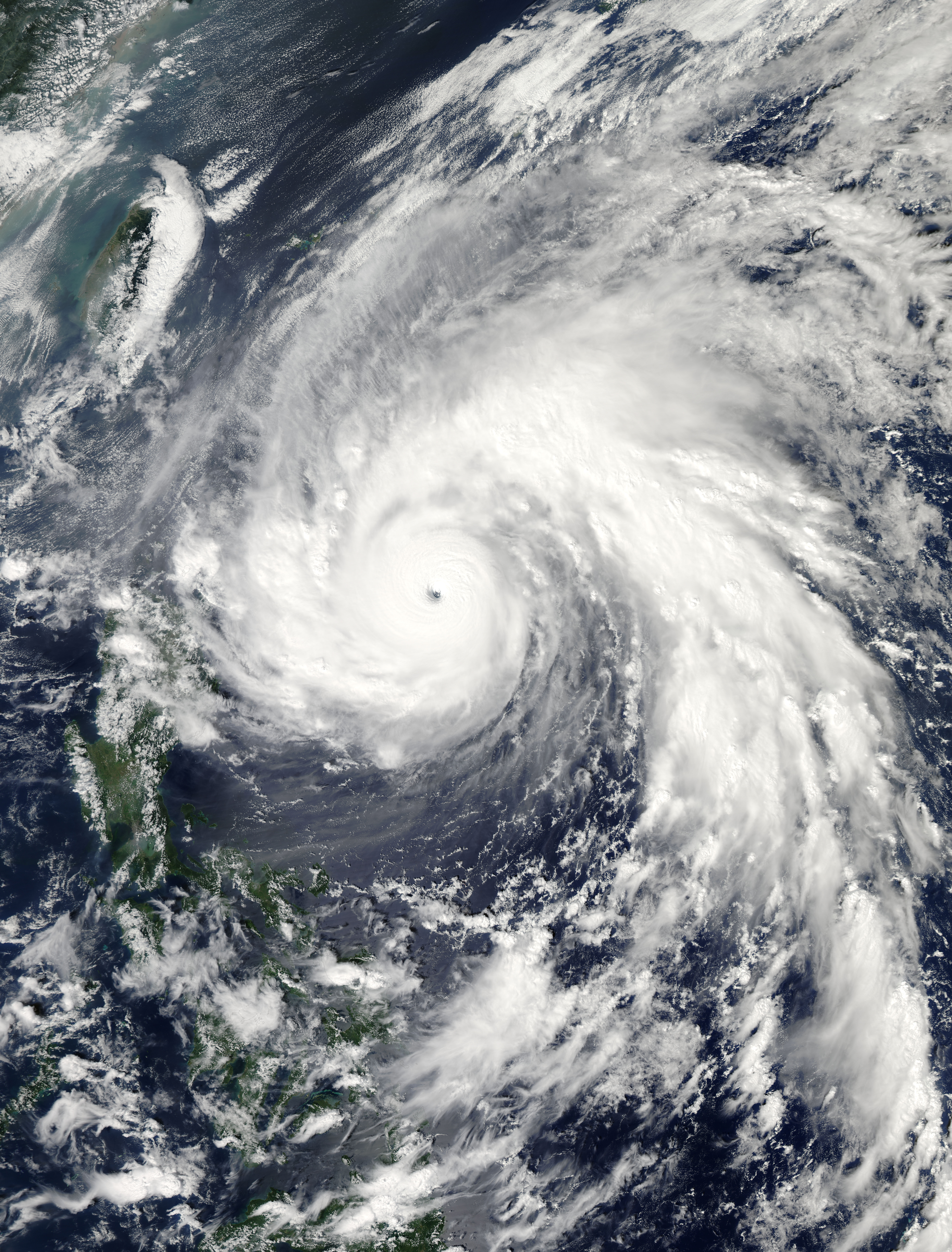 Typhoon Megi approaching the Philippines on October 17, 2010.